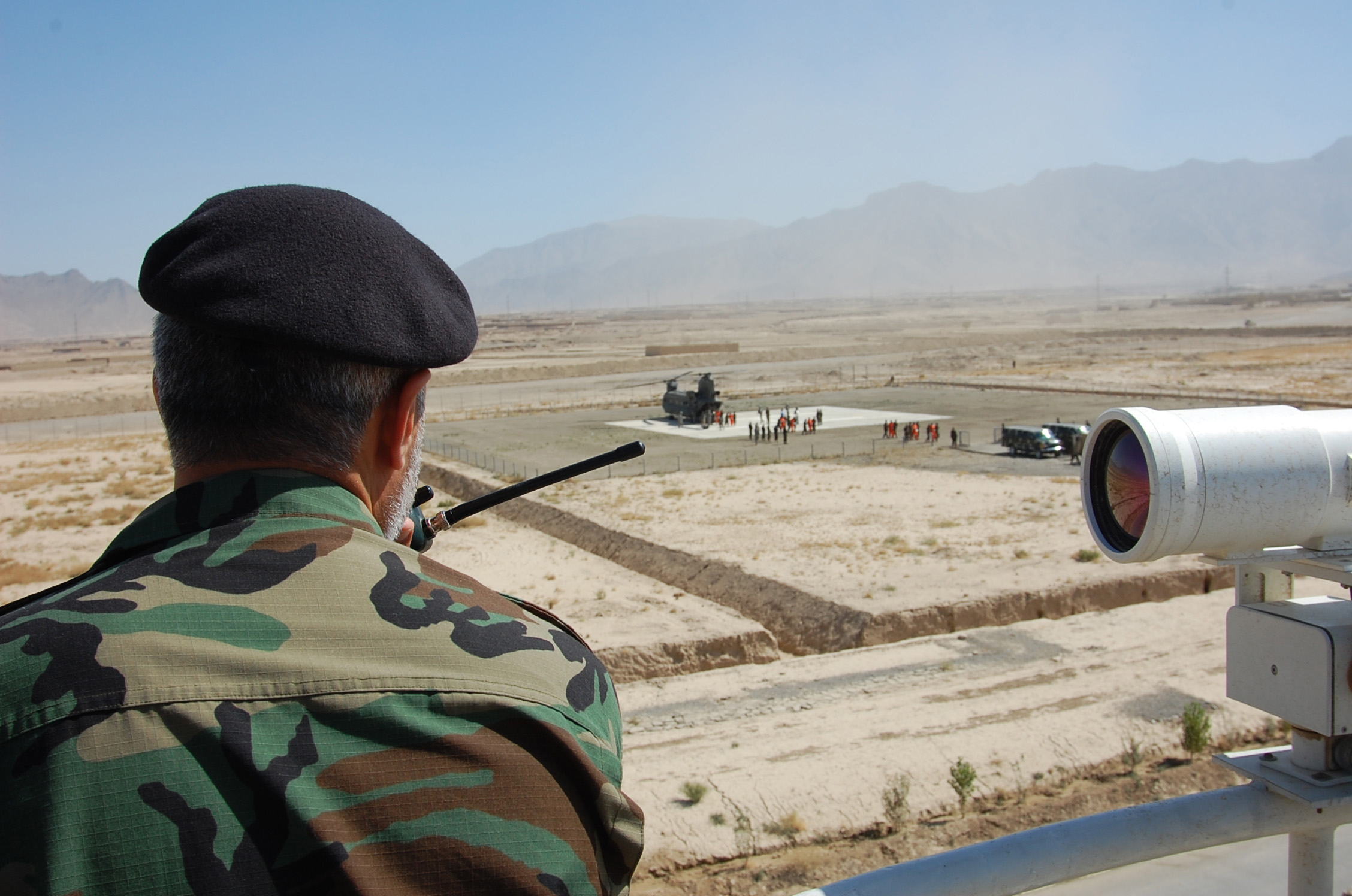 Afghan Col. Mahmoud Shah oversees the transfer of more than 30 detainees from Bagram Internment Facility to the Afghan National Detention Facility in Kabul, Afghanistan. The ANDF keeps more than 300 detainees in confinement, with more than 400 guards assigned.